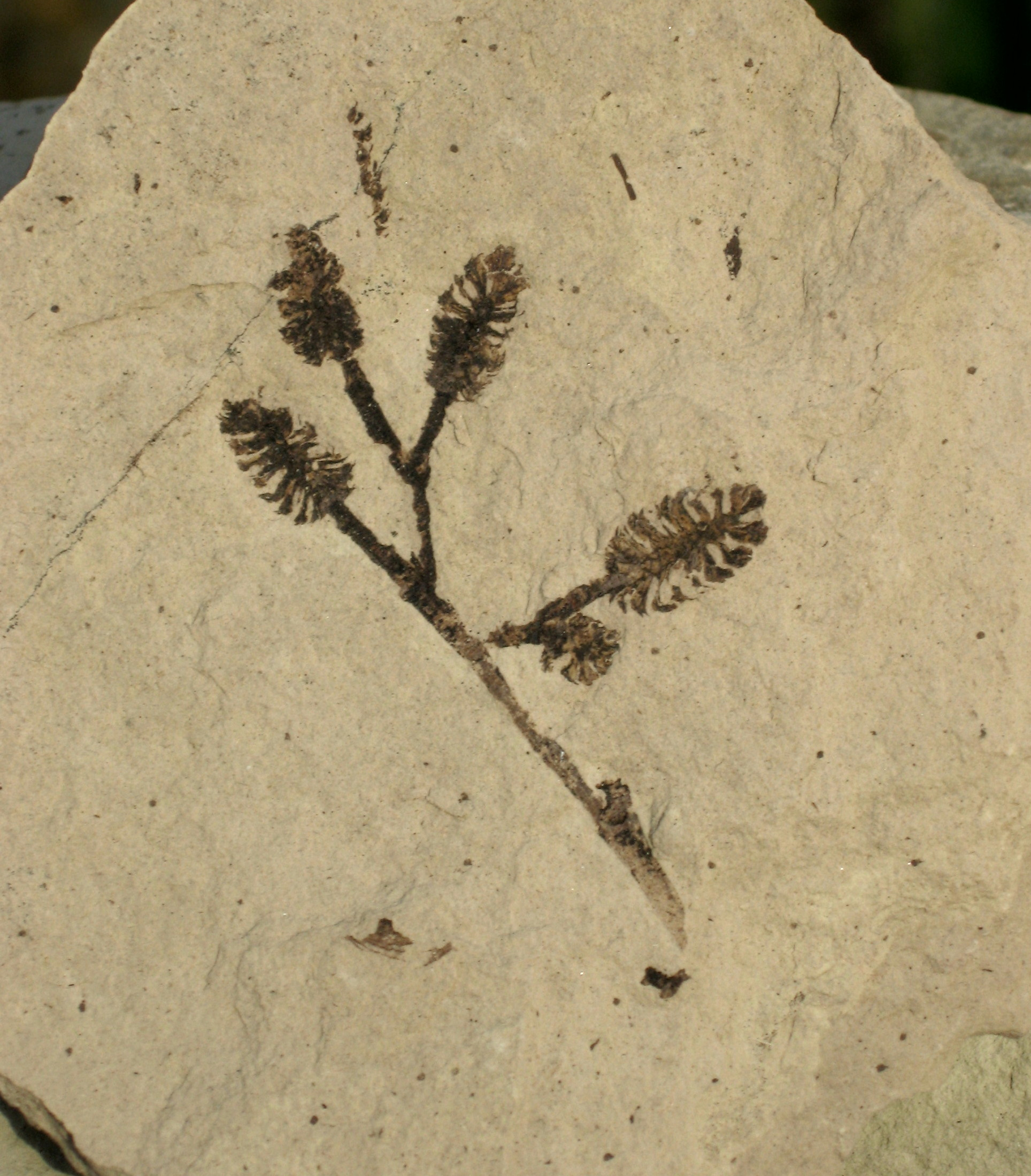 A 5cm tall twig with cones, these are the more common cone type found. Klondike Mountain Formation, Republic, Ferry County, Washington, USA, Eocene, Ypresian, 49million years old. Stonerose Interpretive Center Collection #